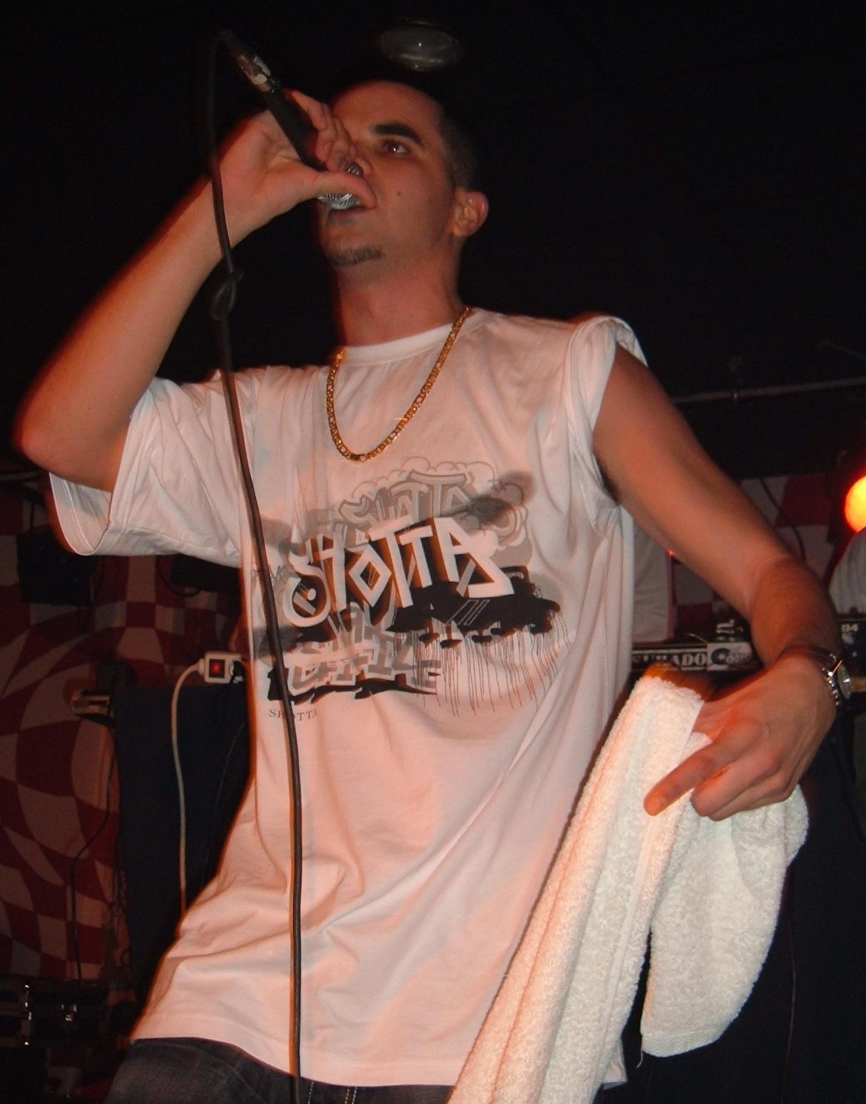 Shotta is a Spanish Rapper. Shotta live Murcia 2008.